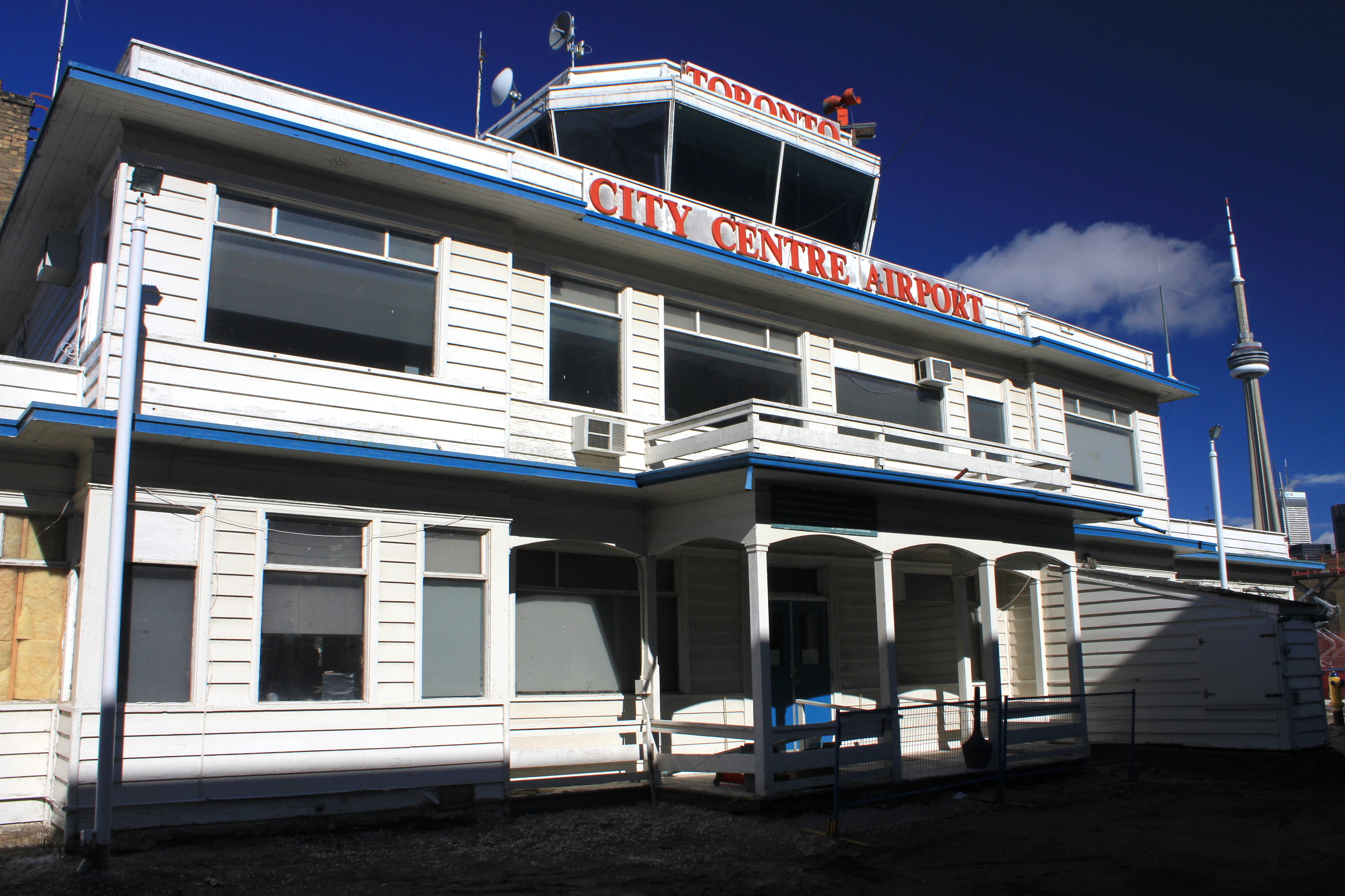 This is the original terminal at the Island airport. It will be moved later this winter to Centre island.